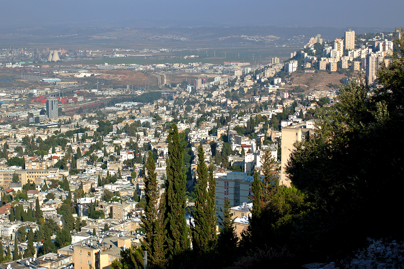 General view of eastern Haifa, with the greater part of Upper Hadar filling the vast space of the image. The multistories of northern Navé Sha'anan are observed on the hilltop to the right, the Haifa Bay industrial facilities at far top, and the blue-gray tower in the middle-left is just the eastern tip of Downtown, that continues further west. Across the valley, where a thin dash of the Kishon River can be spotted, rise the Mountanins of Galilee.